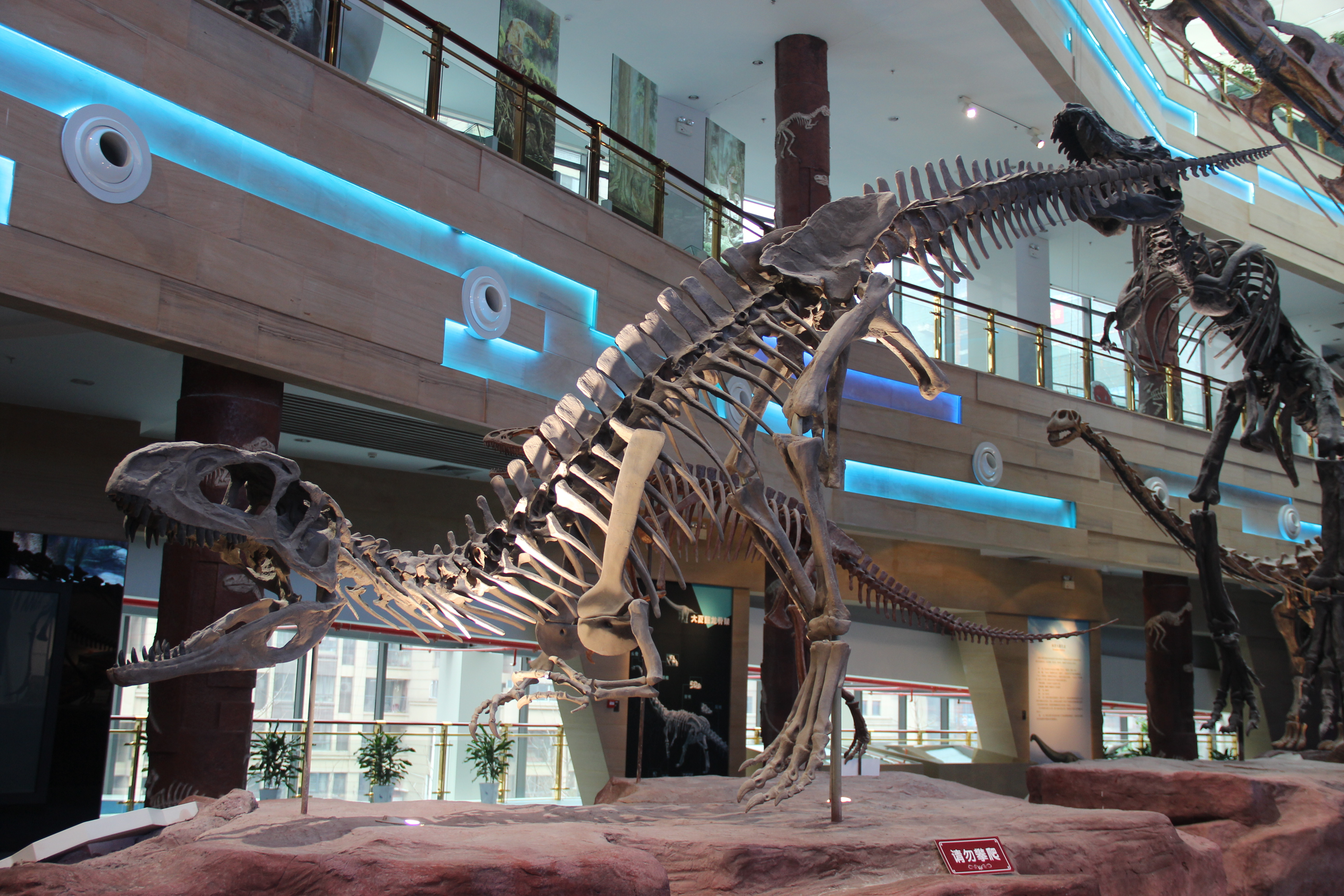 Anhui Geological Museum, Hefei. Complete indexed photo collection at .